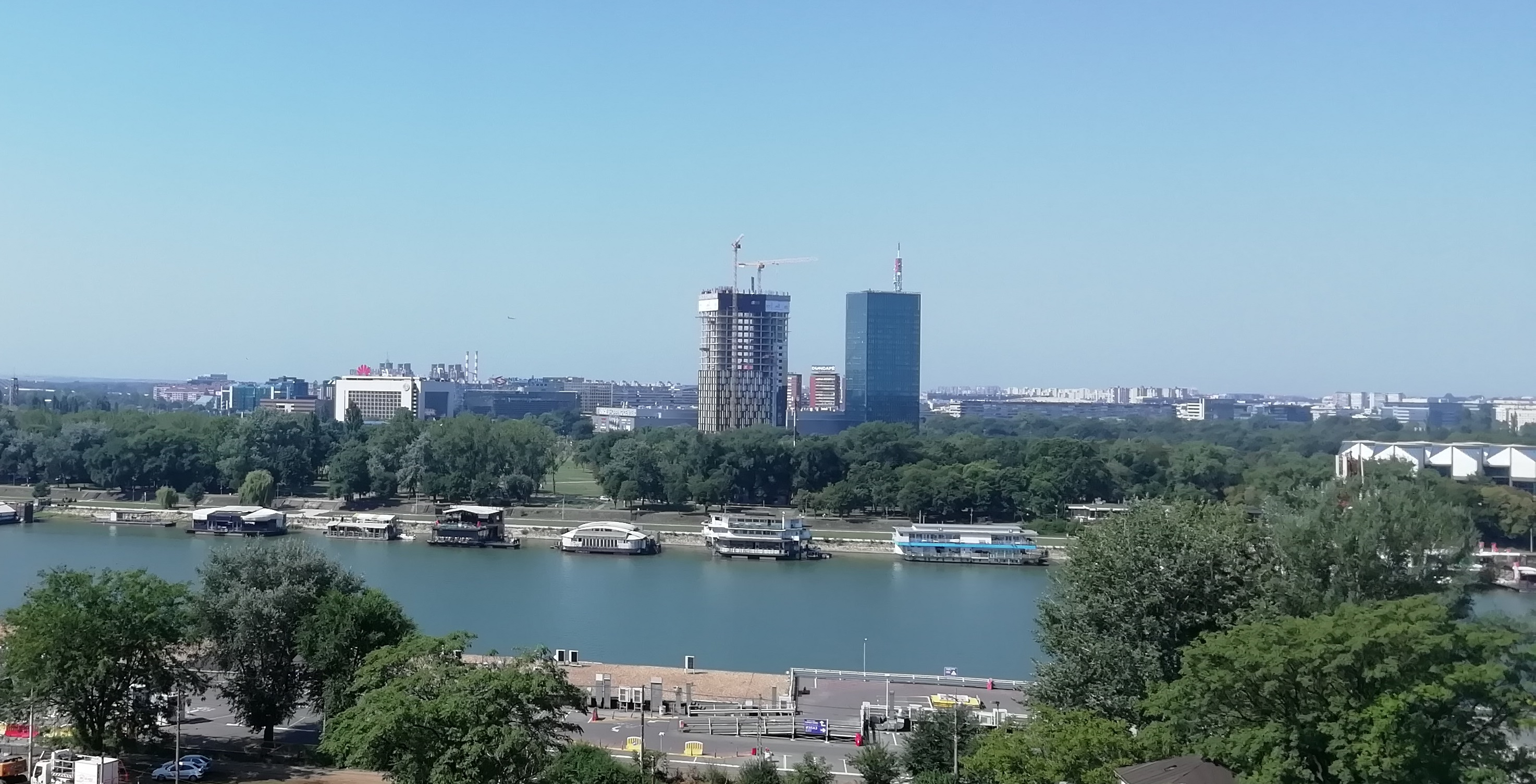 View on Ušće Towers (the second tower under construction) from Belgrade Fortress, August 2019